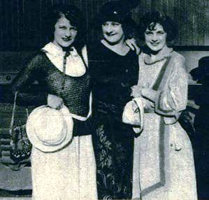 Actresses Viola Dana, Shirley Mason, and Edna Flugrath, on page 51 of the December 1922 Screenland.